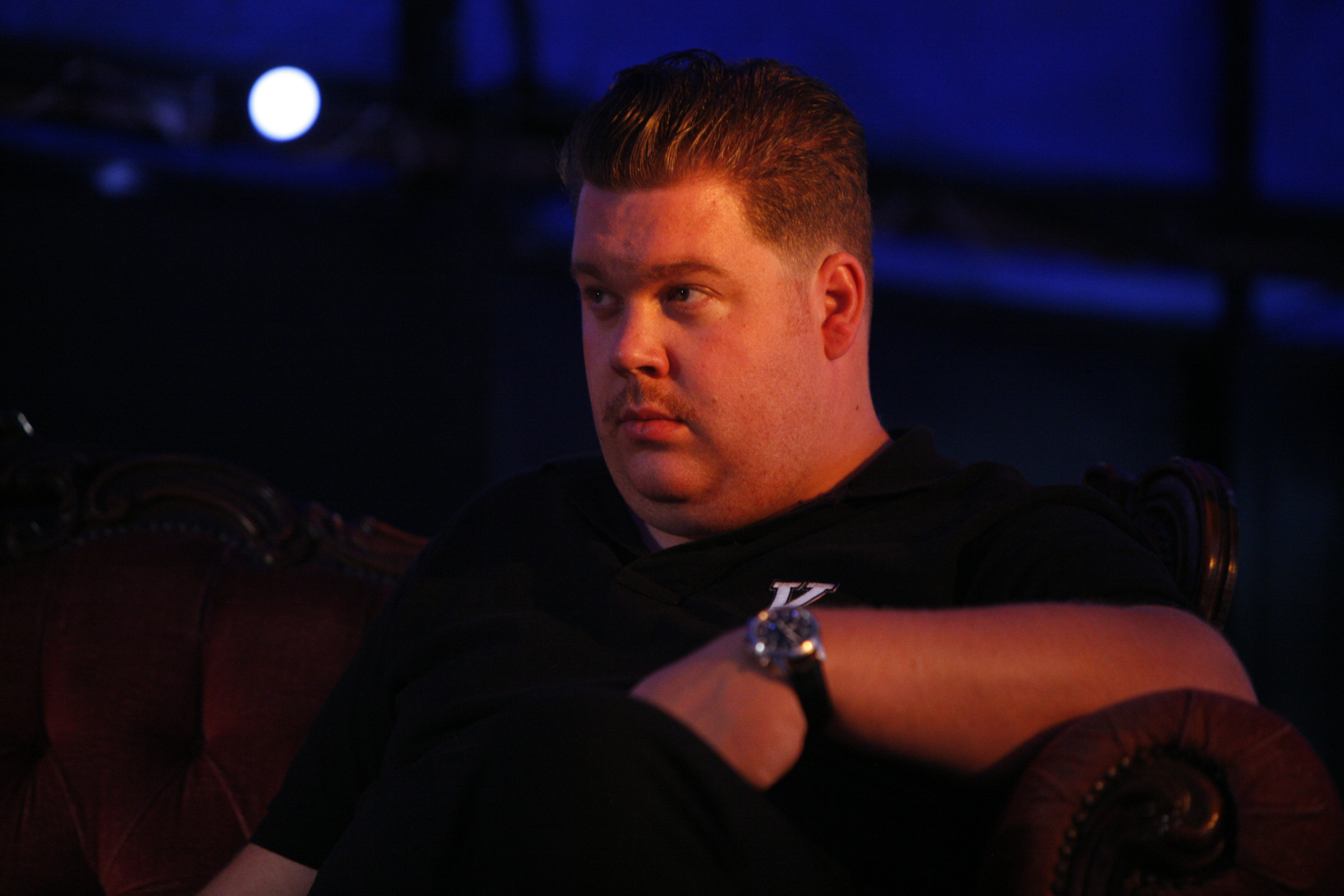 The Hives at the Eurockéennes of 2007